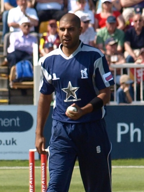 Jeetan Patel of Warwickshire CCC playing against Northants, Picture by Gus Stephens